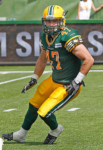 JC playing at home